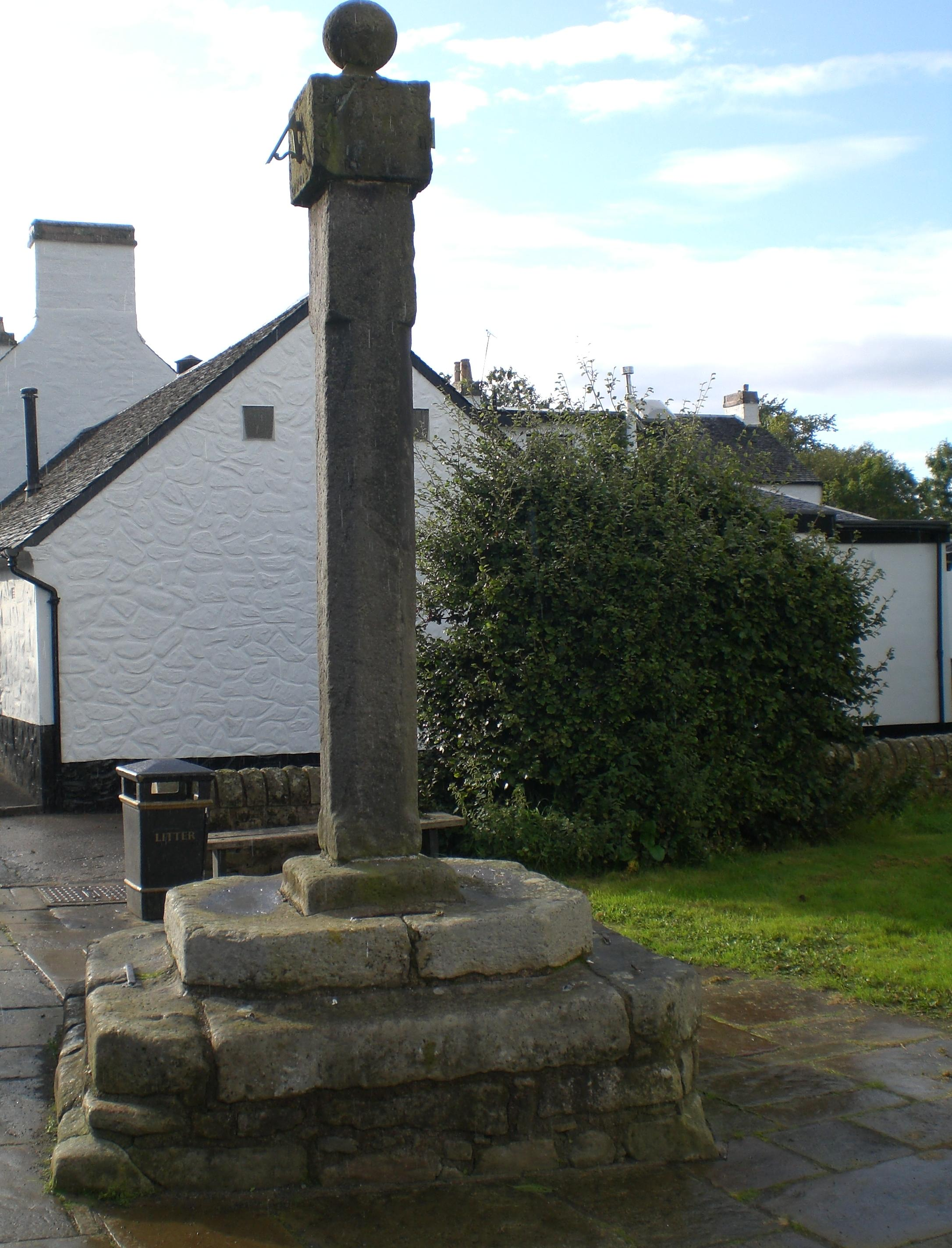 Mercat cross and sundial at Houston, Renfrewshire, Scotland